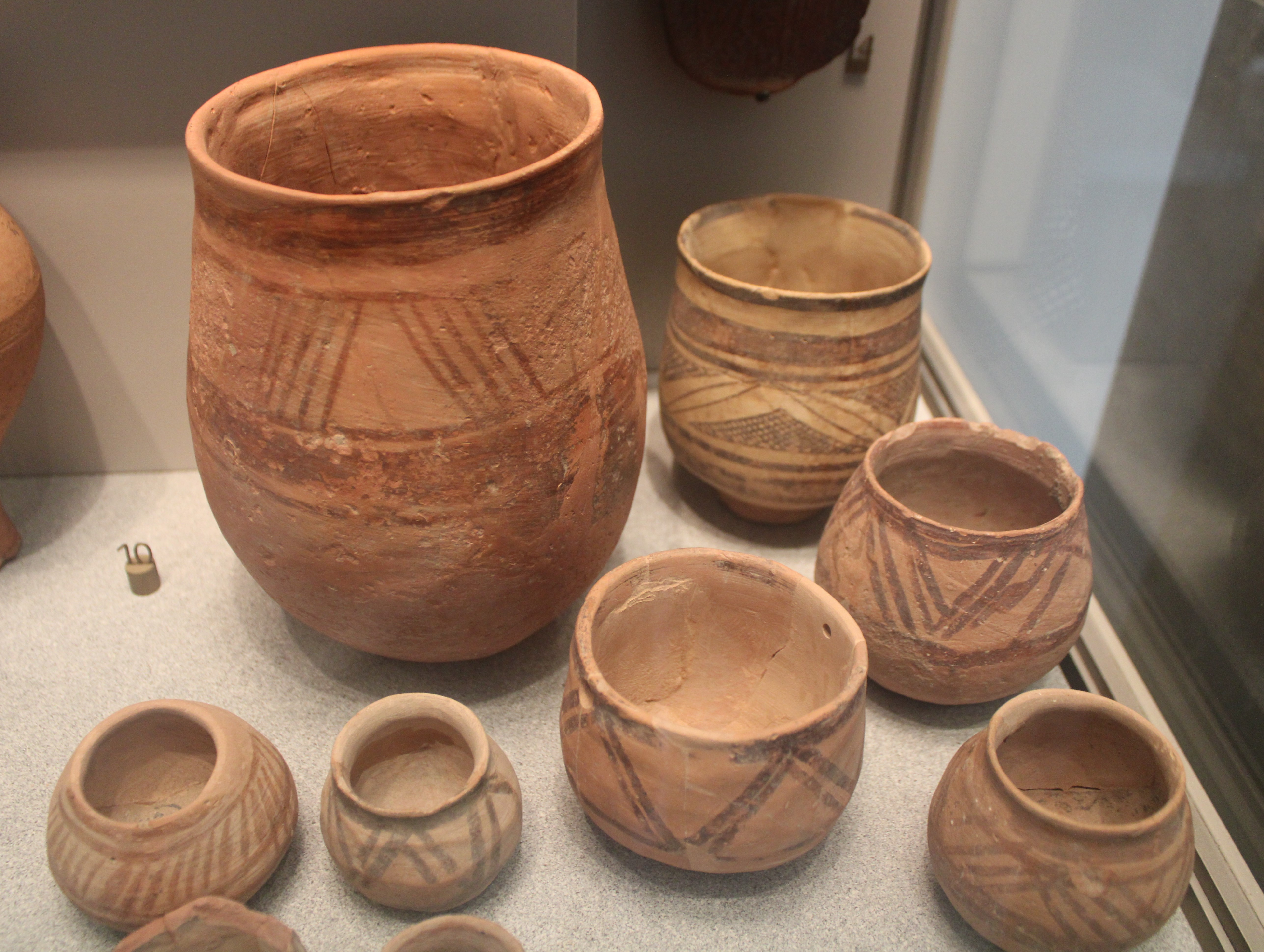 Two-color vases, from Amri (Pakistan), pre-mature Harappan period, c. 2700-2600 BC. J.-M. Casal excavations, 1959-1962. Guimet Museum.